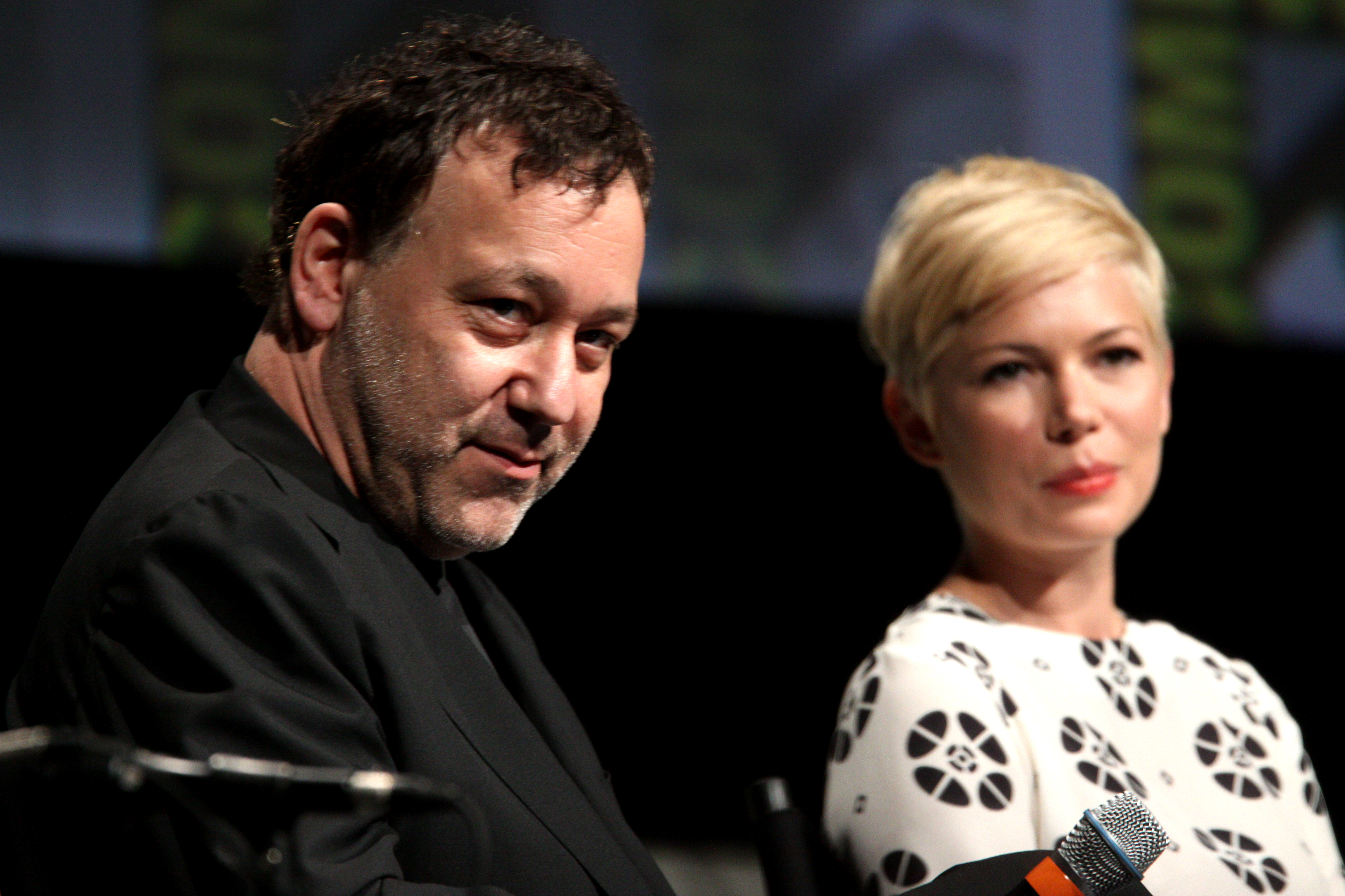 Sam Raimi & Michelle Williams speaking at the 2012 San Diego Comic-Con International in San Diego, California.